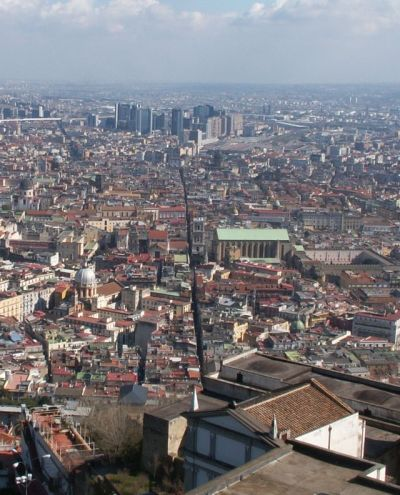 The historical center of Naples (UNESCO World Heritage Site)